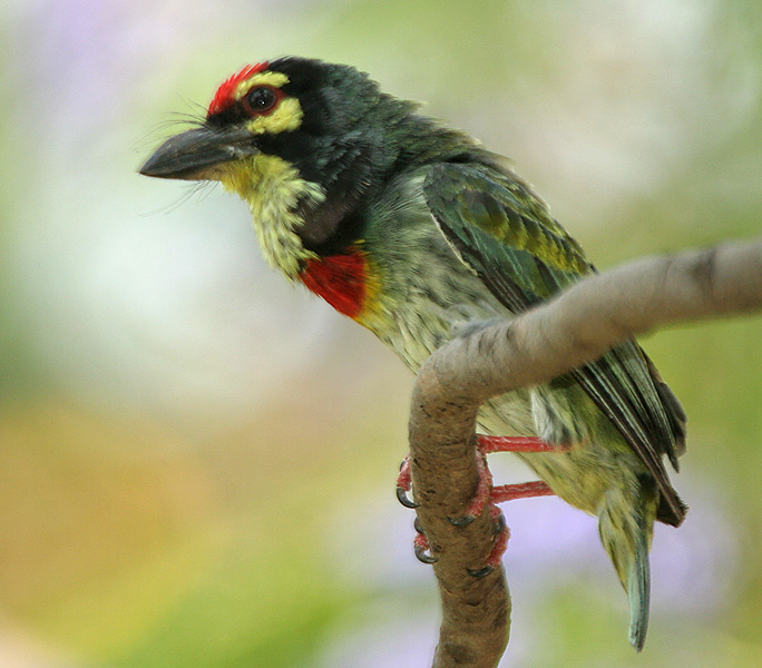 Coppersmith Barbet, Crimson-breasted Barbet or Coppersmith Megalaima haemacephala in Sanjeevaiah Park, Hyderabad, India.